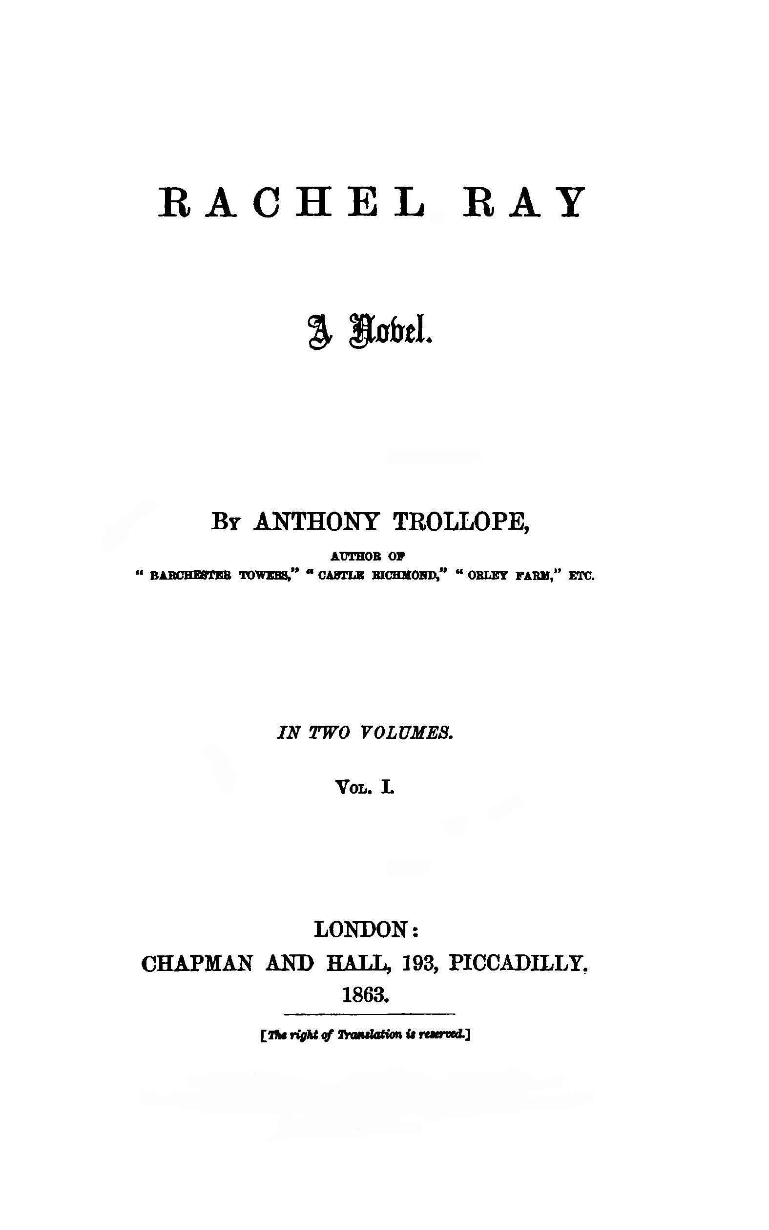 Title page of 1863 Chapman & Hall first edition of Rachel Ray by Anthony Trollope